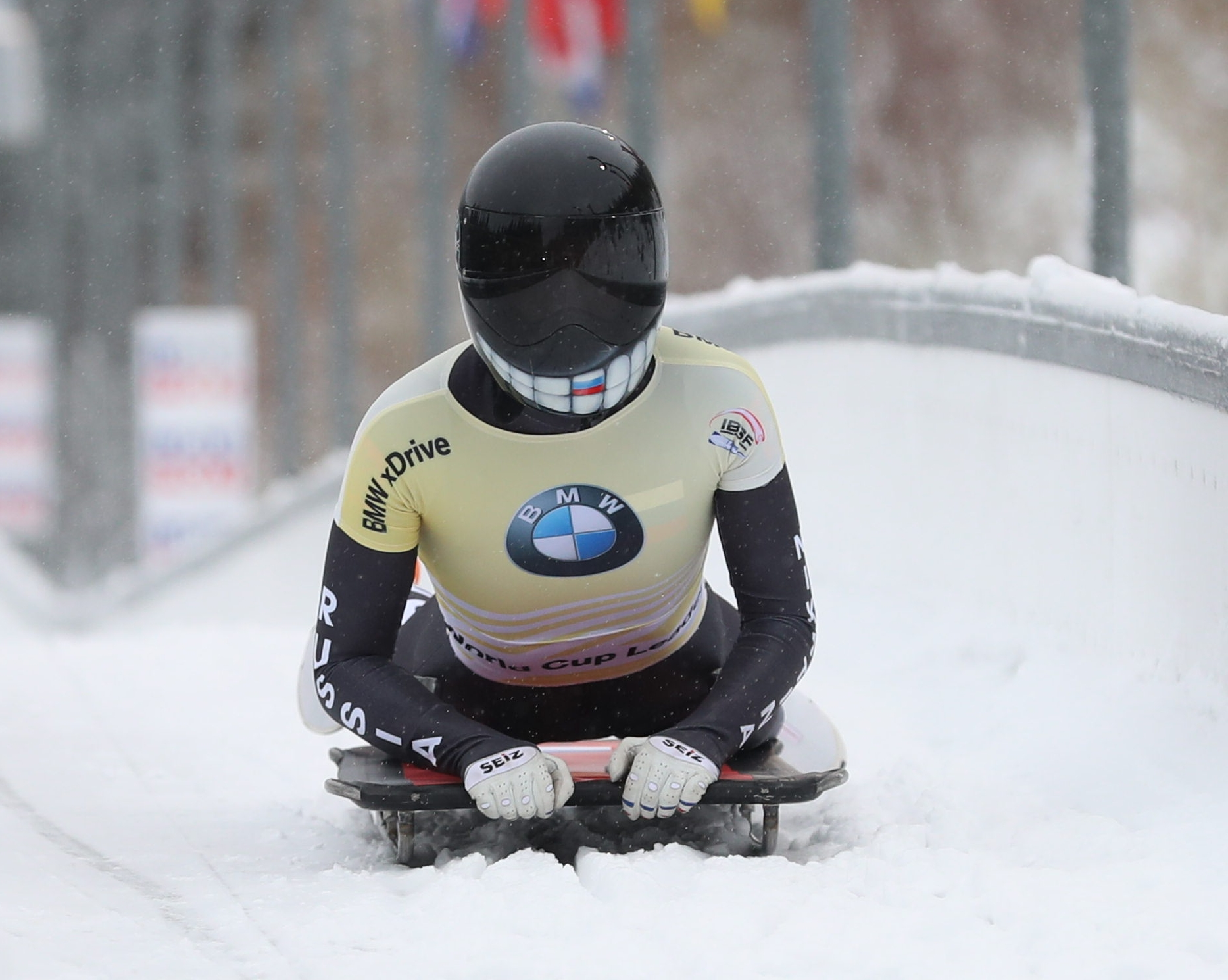 Women's World Cup race at the 2018/19 Skeleton World Cup in Altenberg